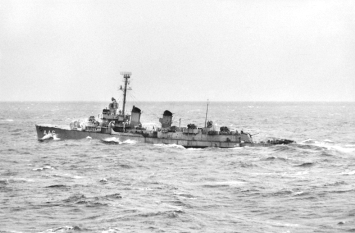 The U.S. Navy Fletcher-class destroyer USS Radford (DD-446) off Korea.